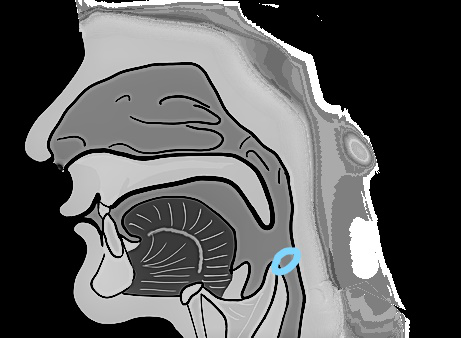 The shape of throat hole when ㅇ is pronounced